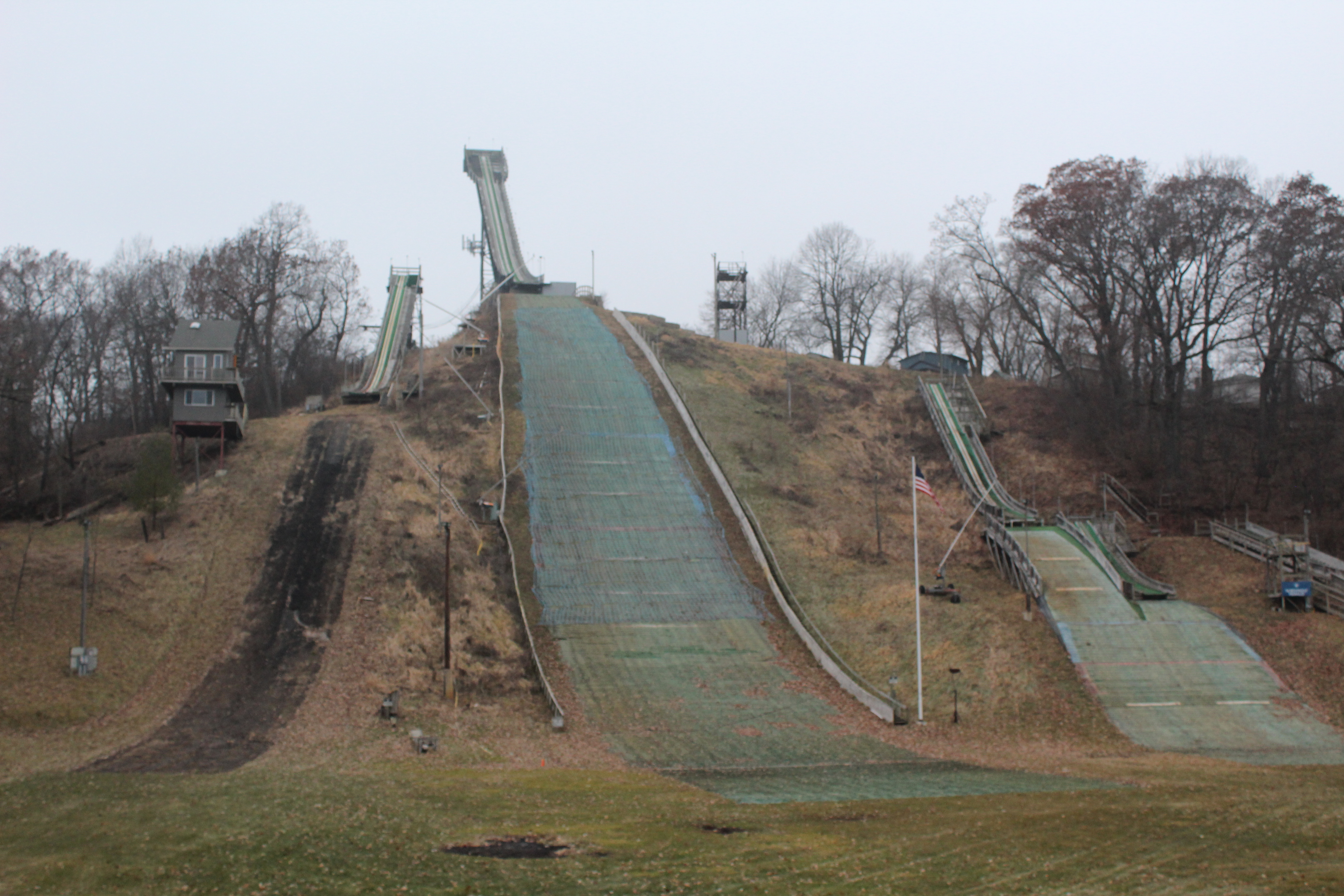 Jumping Hills at Norge Ski Club in Fox River Grove, Illinois.